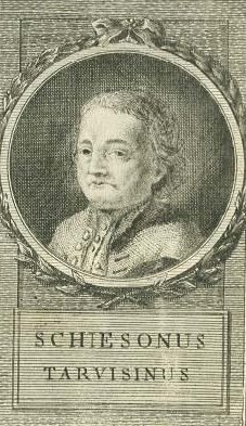 Giovanni Pozzobon from Treviso, nicknamed Schieson, poet in Venetian language Vèneto: Giovanni Pozzobon da Treviso, dito Schieson, poeta in lengua veneta